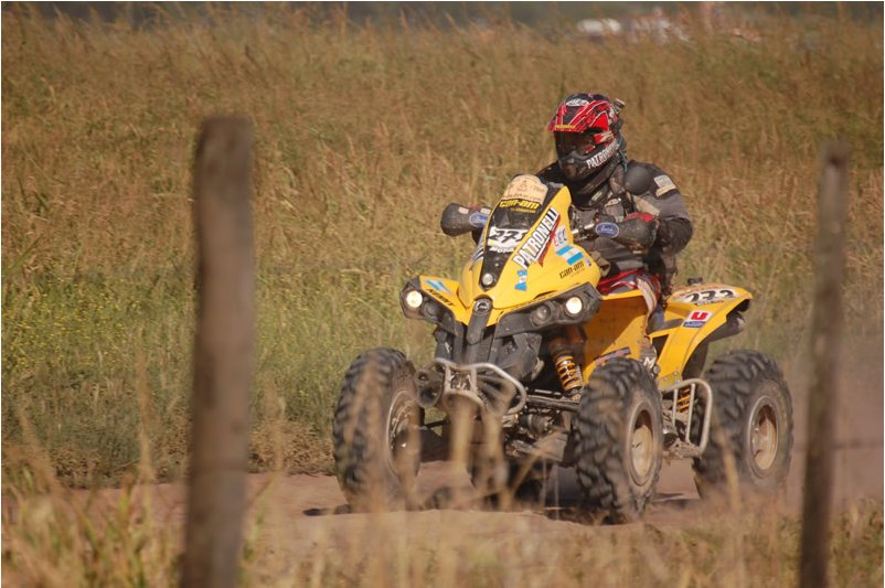 Marcos Patronelli (Argentina). Subchampion Quads. Rally Dakar 2009. Picture taken at Punta Alta (Provincia de Buenos Aires), Argentina.